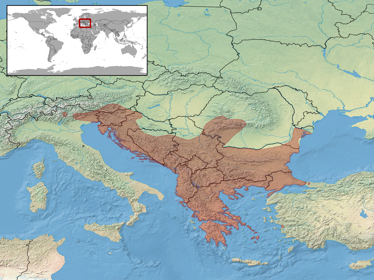 geographic distribution of Vipera ammodytes (Native: Albania; Austria; Bosnia and Herzegovina; Bulgaria; Croatia; Georgia; Greece; Italy; Macedonia, the former Yugoslav Republic of; Montenegro; Romania; Serbia (Serbia); Slovenia; Turkey / Introduced: Switzerland) Without the distribution of Vipera transcaucasiana, sometimes recognized as subspecies.